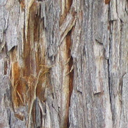 Coast redwood bark detail Taken by Nathan May 14, 2004 nl:Afbeelding:Coast redwood bark.jpg